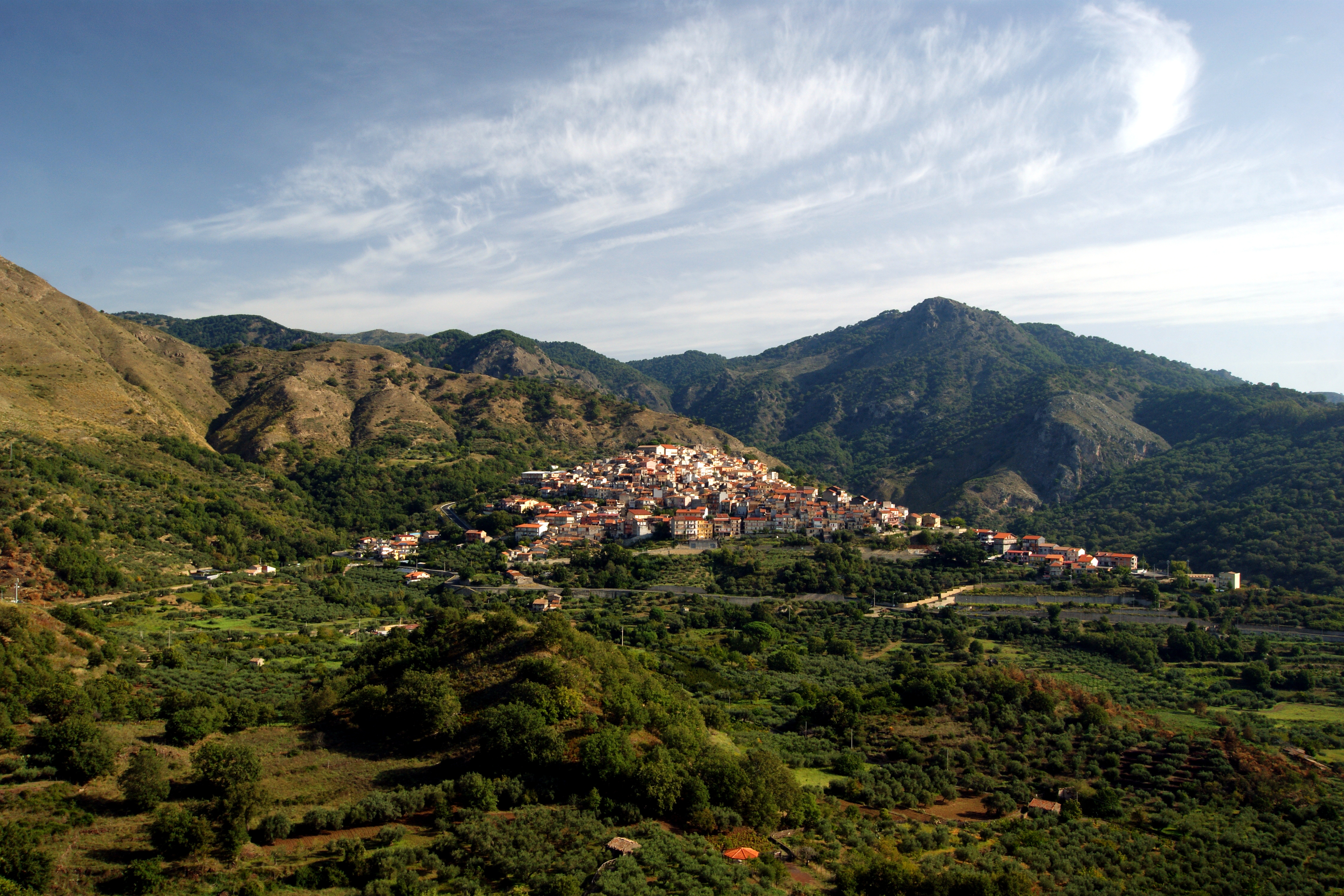 village of Malvagna as seen from Monto Mojo hill